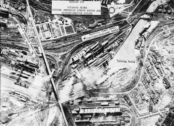 Aerial view of the Cuyahoga River between the Jefferson Avenue Bridge and the Harvard-Denison Bridge in Cleveland, Ohio, in the United States. The Clark Avenue Yard of the Baltimore and Ohio Railroad, with roundhouse, can be seen between the two labels at top-center of the image.